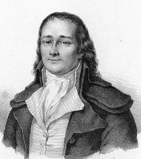 Portrait of Pierre-Gaspard Chaumette (1763-1794), French revolutionary